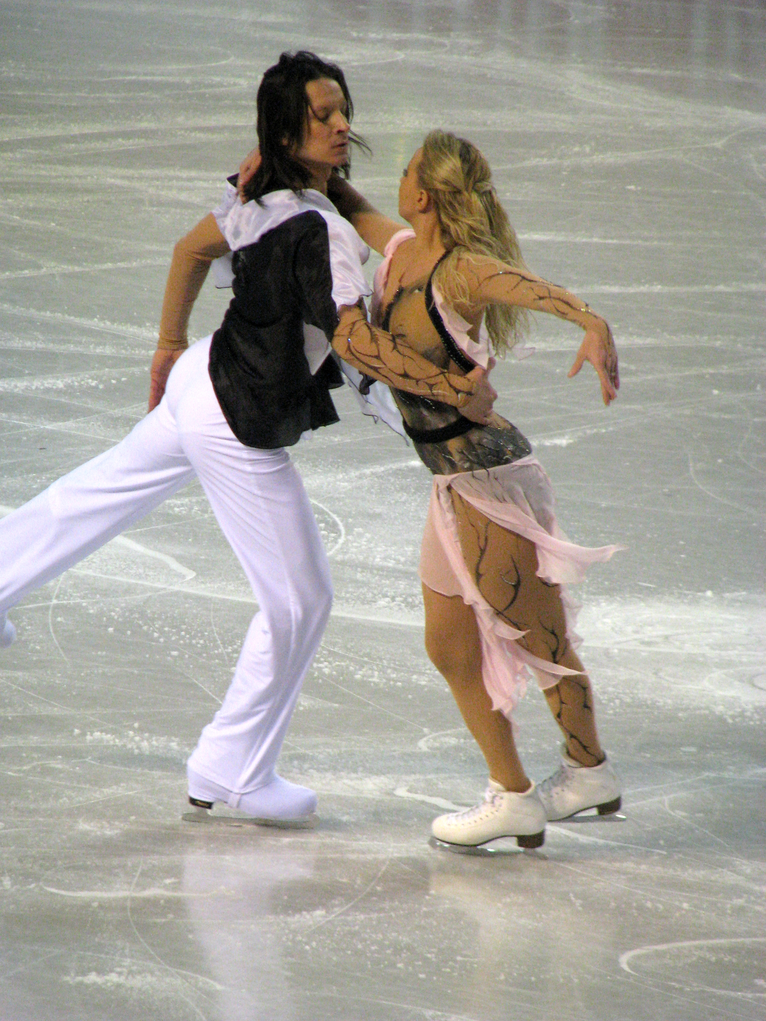 Domnina & Shabalin in 2010 European Figure Skating Championships (Ice Dance Free Dance)